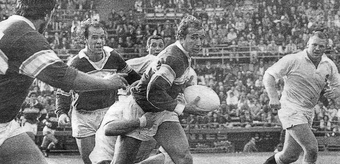 Hugo Porta carrying the ball in the match Banco Nación 29 v England XV 21 played at Vélez Sársfield stadium